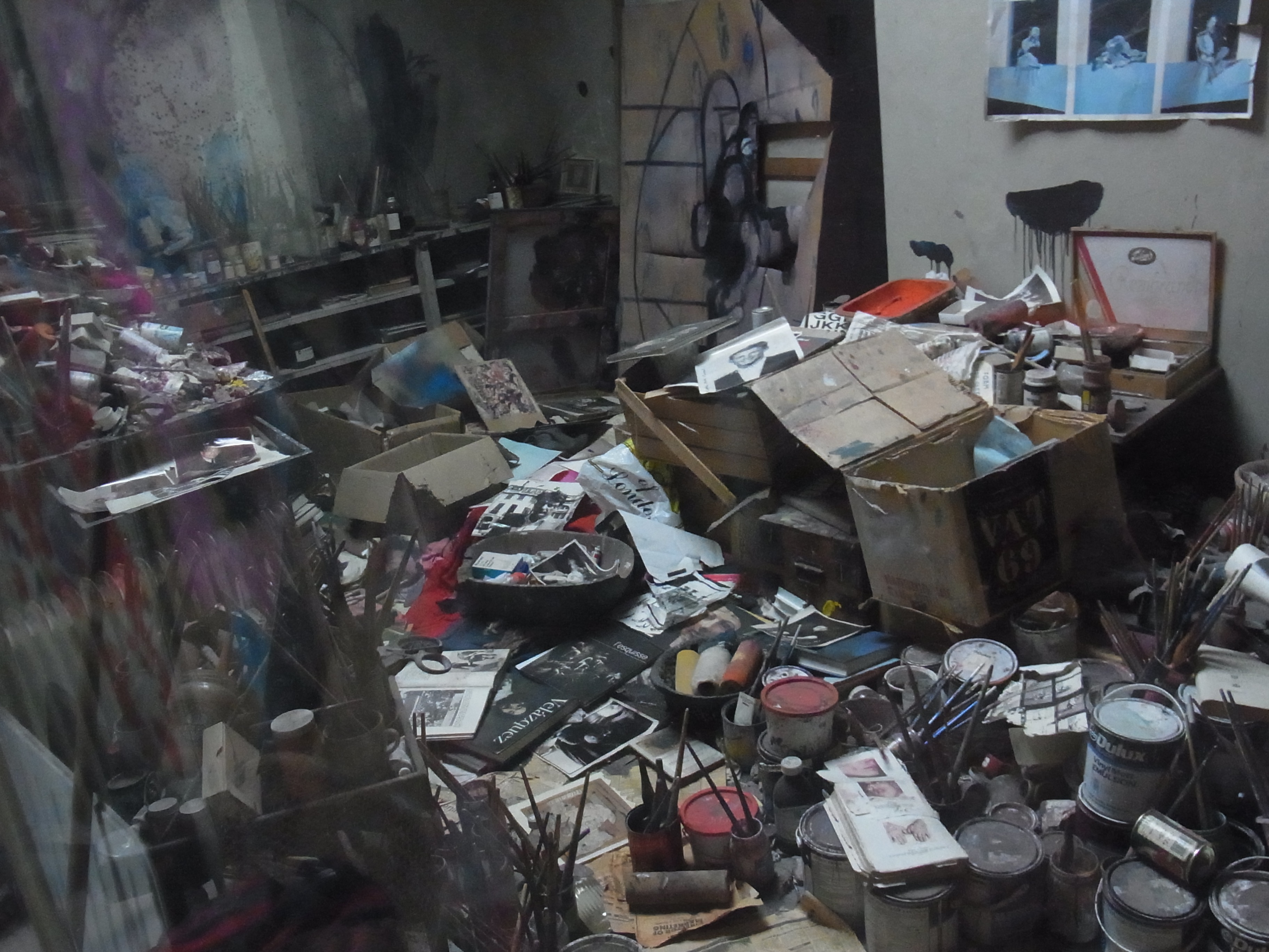 Francis Bacon's studio at the City Gallery The Hugh Lane, Dublin, Ireland.